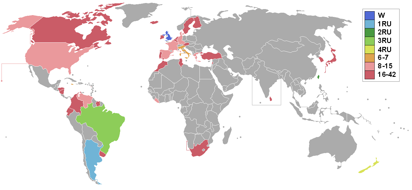 results map